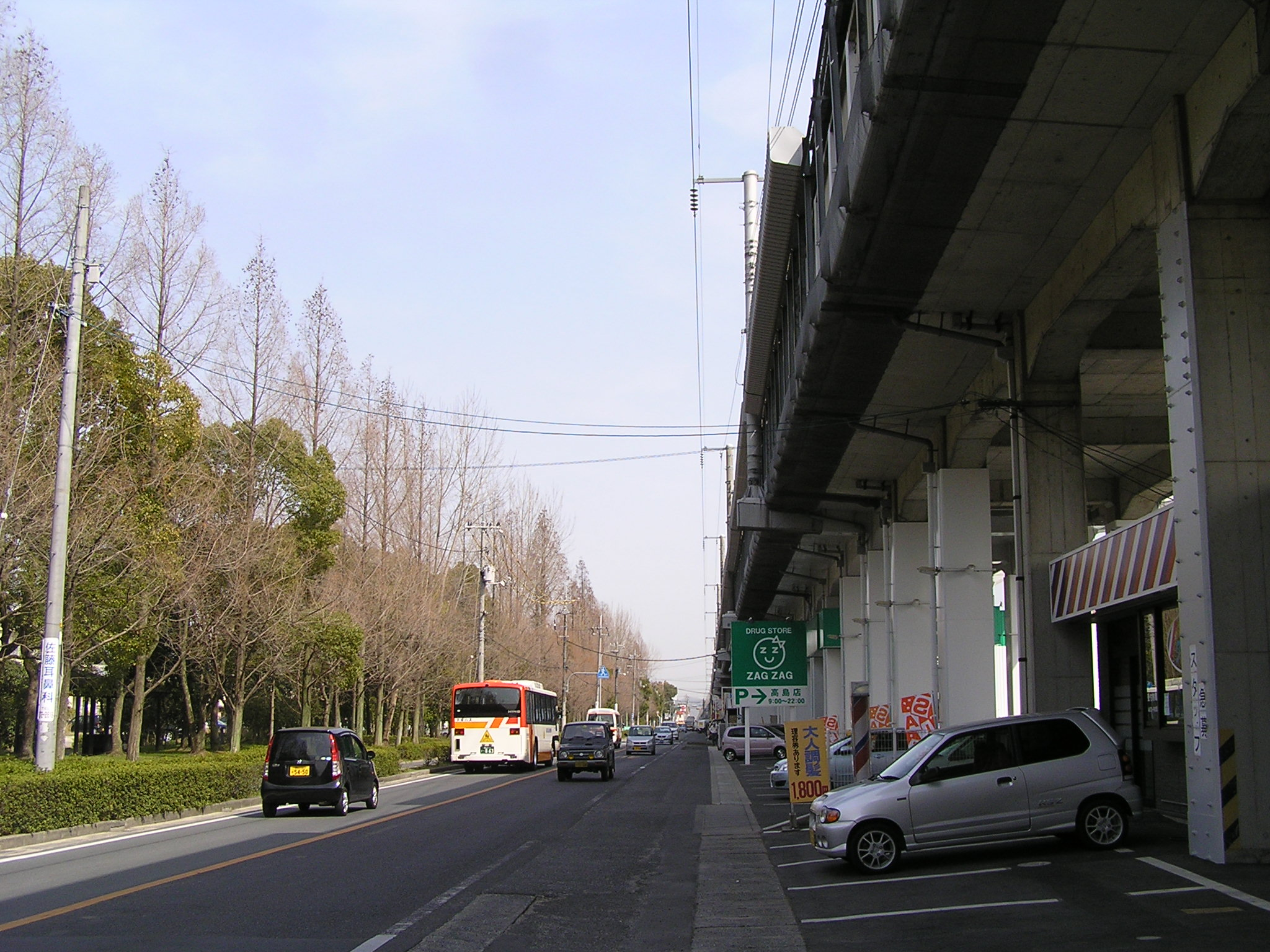 Avenue and Shinkansen of Takashima apartment of a housing complex